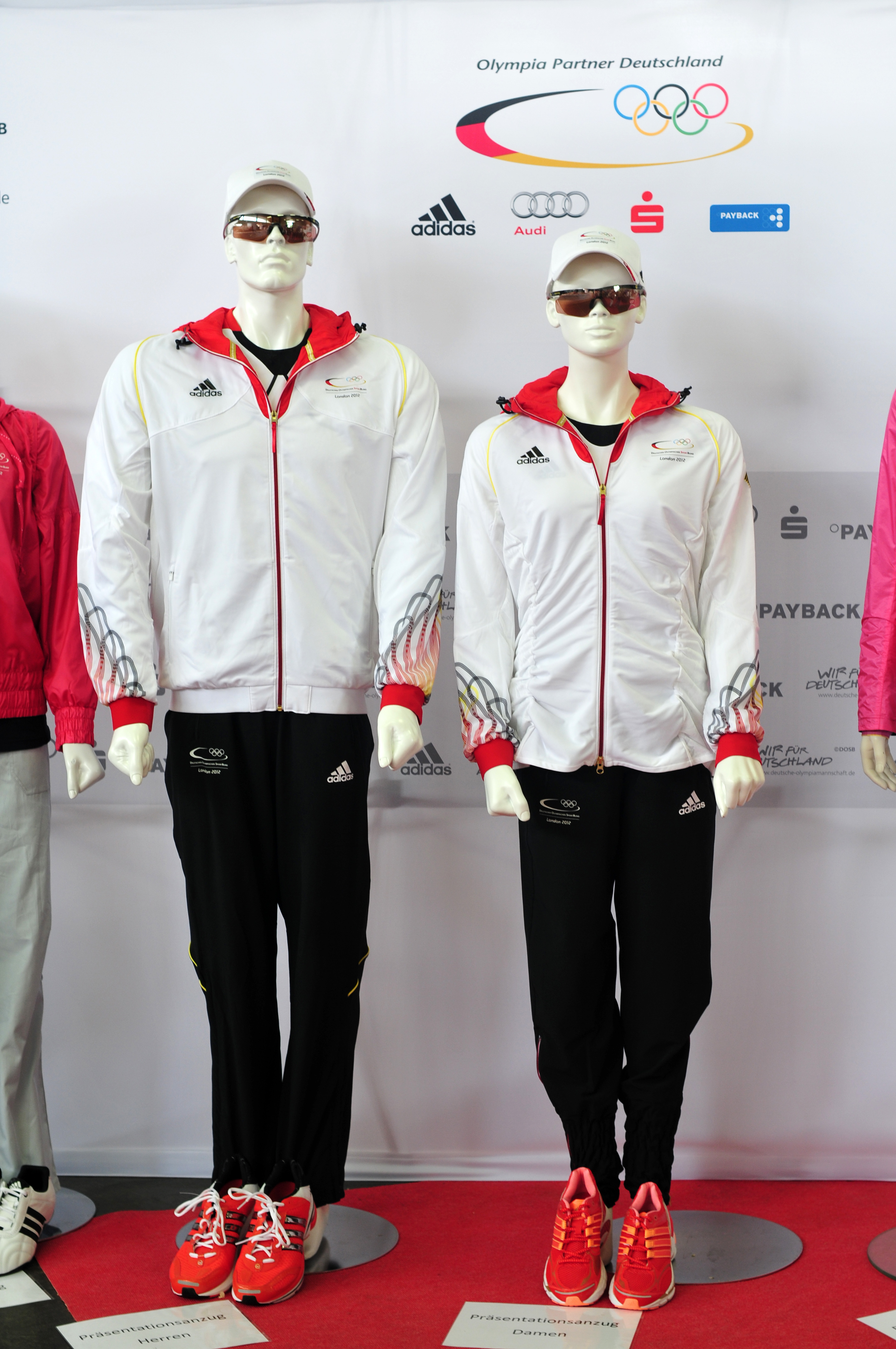 Outfitting the Olympic teams of Germany 2012 Einkleidung der deutschen Olympiamannschaft am 28. Juni 2012 in Mainz - Olympische Sommerspiele 2012 Cirdan Marcus Cyron Olaf Kosinsky Ralf Roletschek Sven Teschke